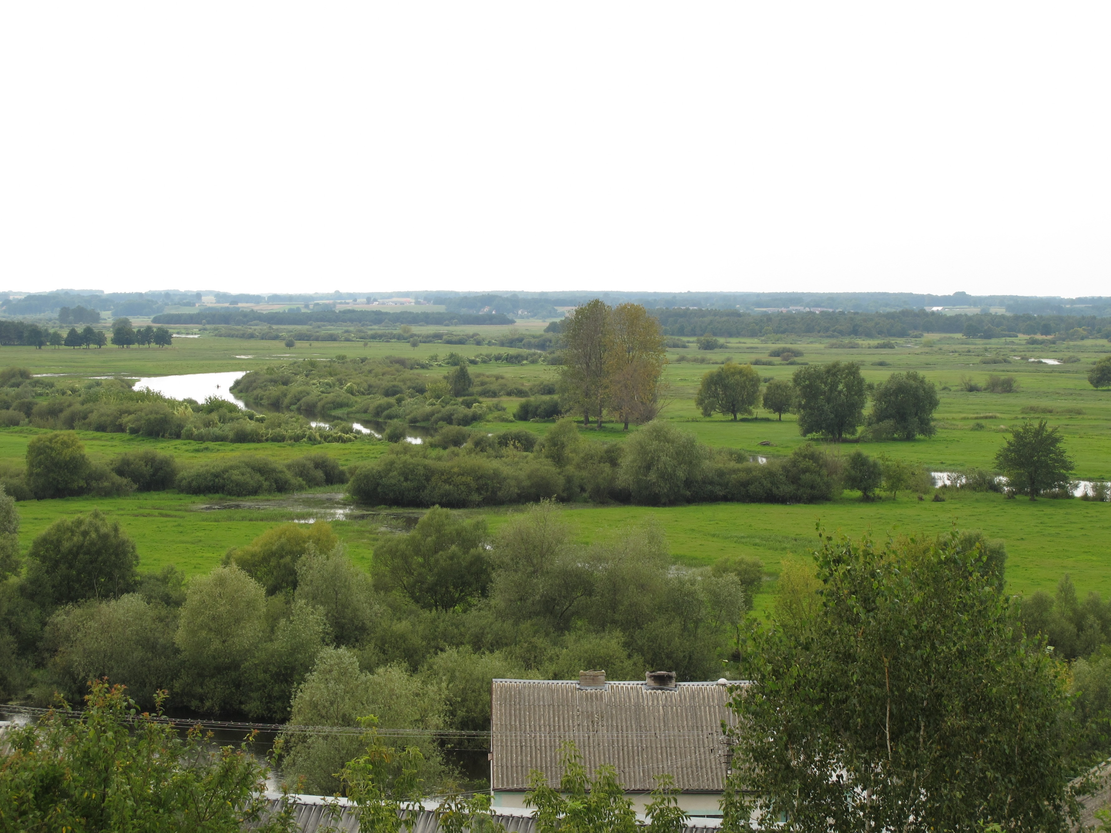 Overview on the Narew River seen from the hill in the Góra Strękowa village, gmina Zawady, podlaskie, Poland